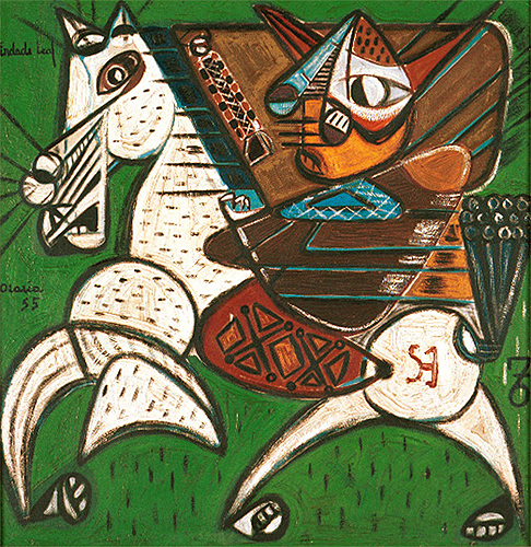 Geraldo trindade Leal: Ginete, óleo sobre tela, 1955, acervo do Museu Museu de Arte do Rio Grande do Sul Ado Malagoli, Porto Alegre, Brasil.